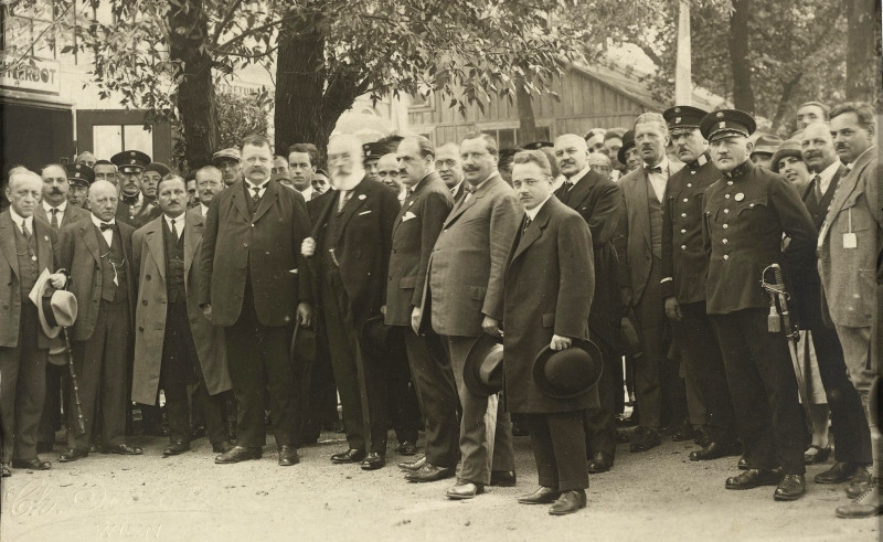 Abbildung in Gruppe mit Engelbert Dollfuss und vielen anderen. Postkarte, Druck nach Foto